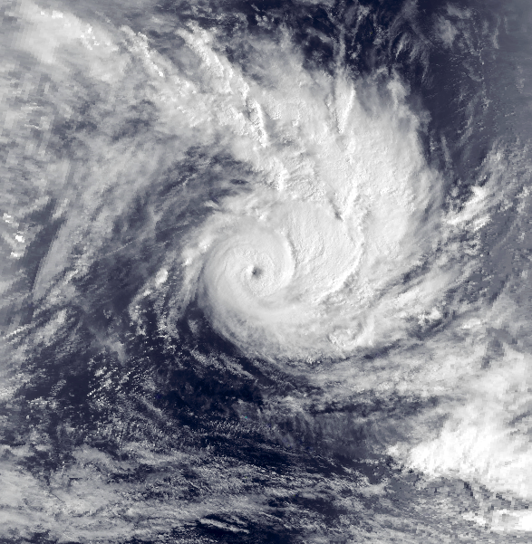 Severe Tropical Cyclone Wasa–Arthur on December 7, 1991.